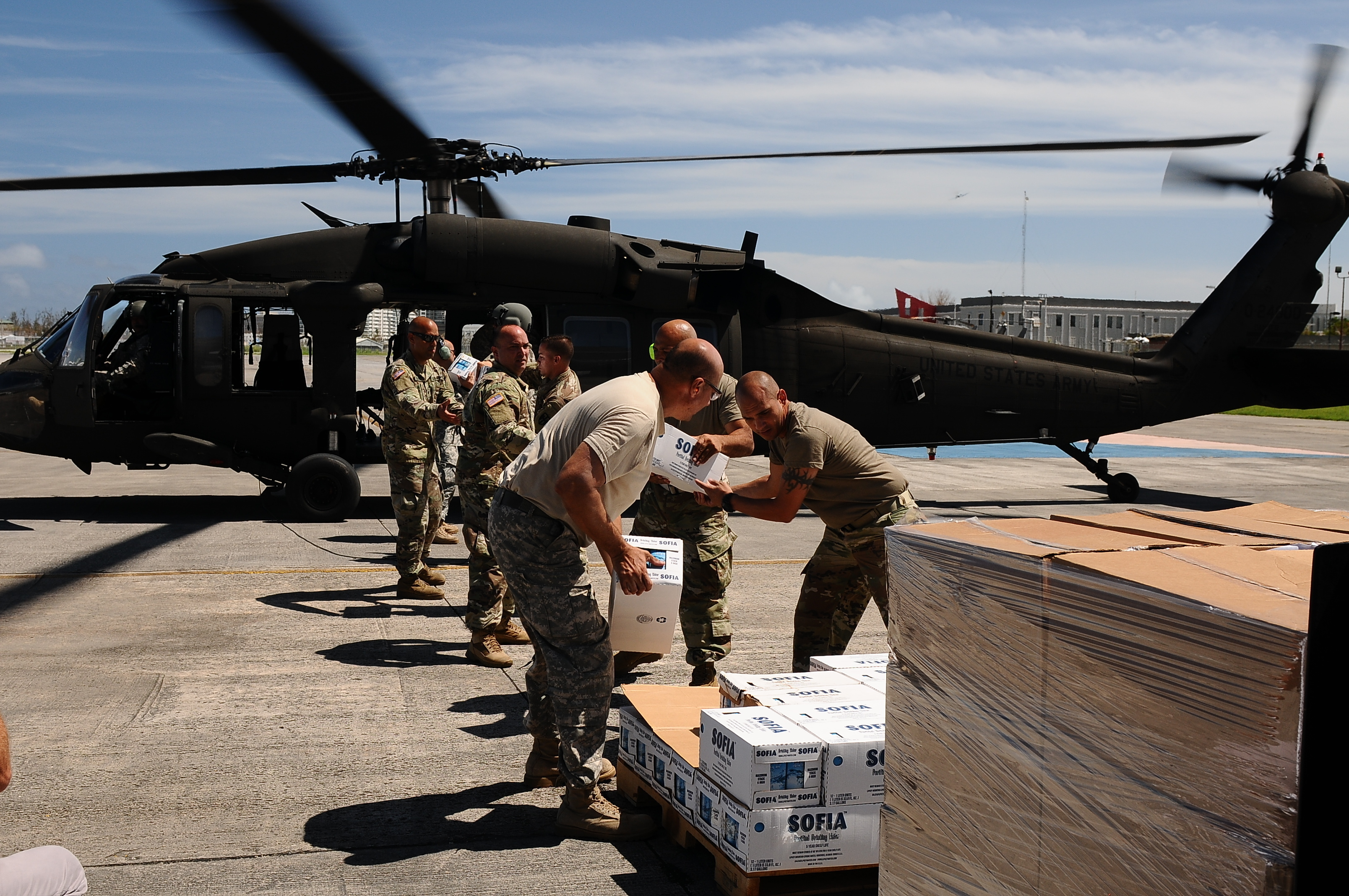 Puerto Rico National Guard Soldiers distribute water and food to the community of Orocovis, on Sept. 29. Members of the community helped the Soldiers unload the supplies, while the municipal police transported the supplies in their official vehicles to the shelter. (Photo by Sgt. José Ahiram Díaz-Ramos)